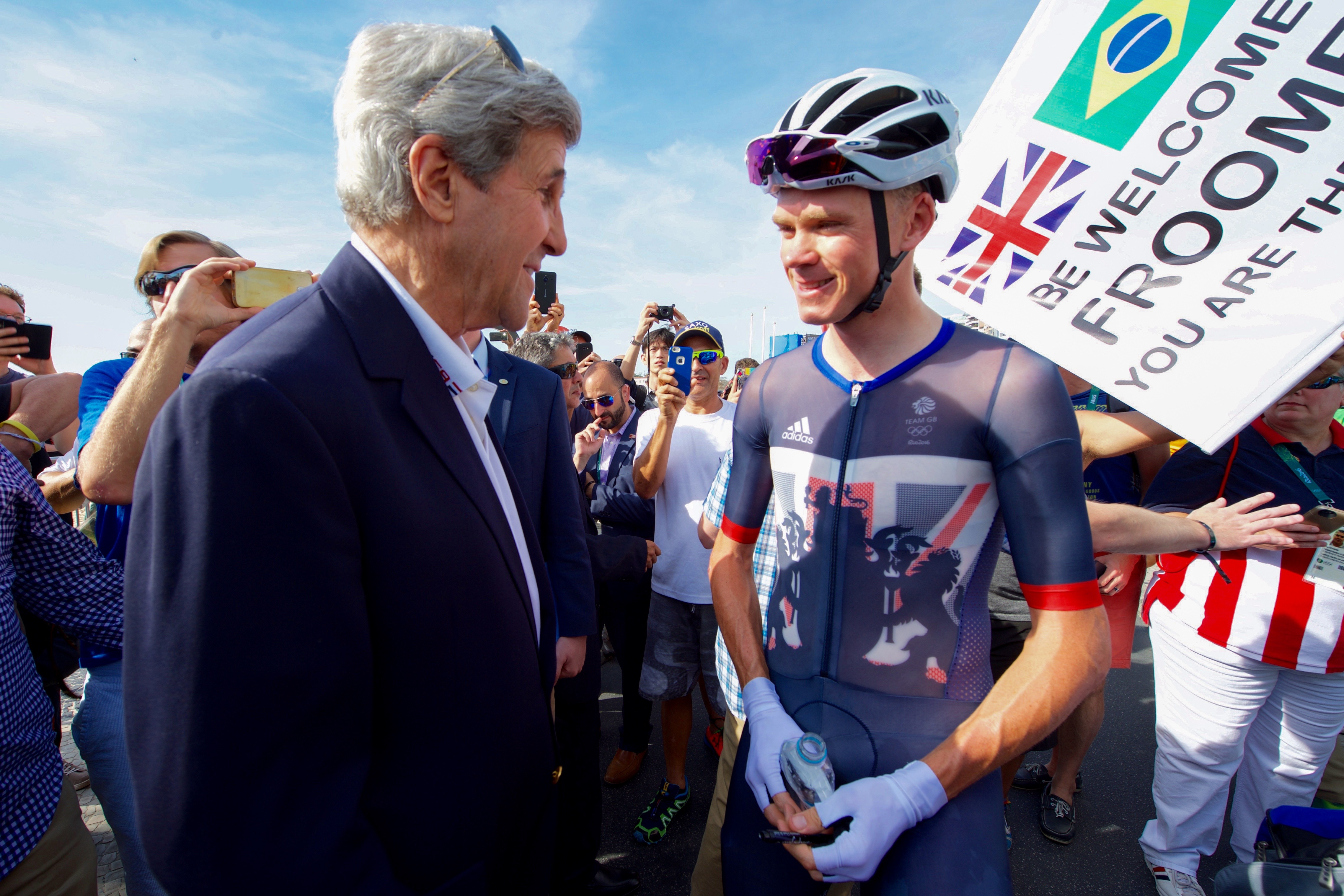 U.S. Secretary of State John Kerry chats with Tour de France winner - and United Kingdom Olympian - Chris Froome along the Copacabana beach in Rio de Janeiro, Brazil, as the Secretary and his fellow members of the U.S. Presidential Delegation tour the Olympic men's cycling area before the start of a race on August 6, 2016. [State Department Photo/ Public Domain]